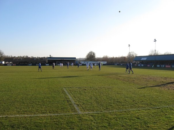 Photo of the home of Tonbridge Angels F.C. taken from the east end, looking to the south end and the West Stand along the far touchline.